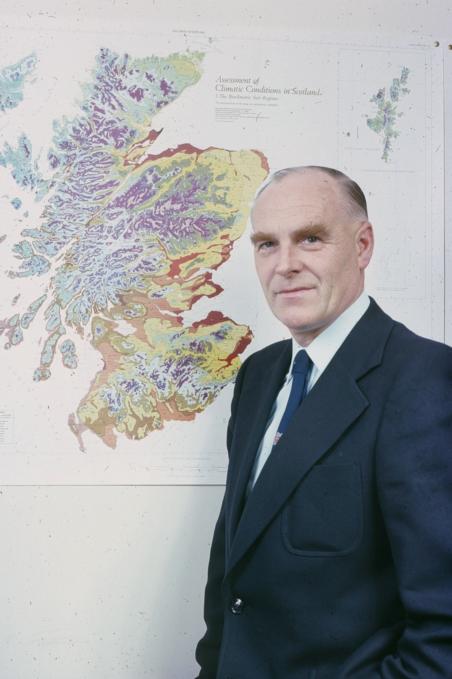 Launch of Scotland Land Use Ordinance Survey Maps 1976